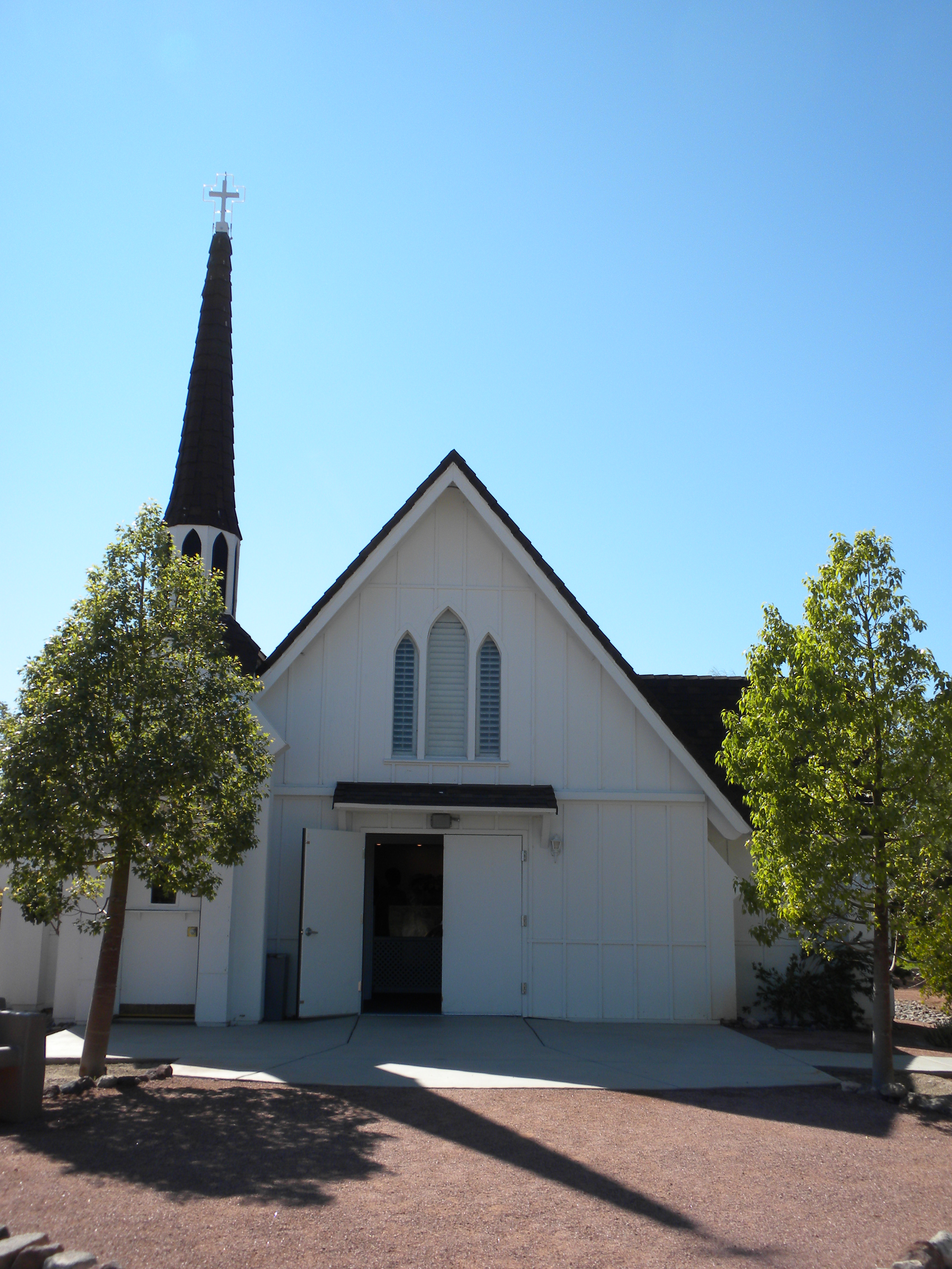 Wedding chapel formerly on Las Vegas Strip, now at the Clark County Heritage Museum.